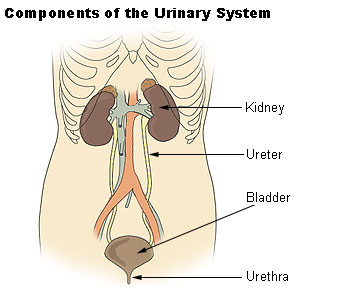 urinary system